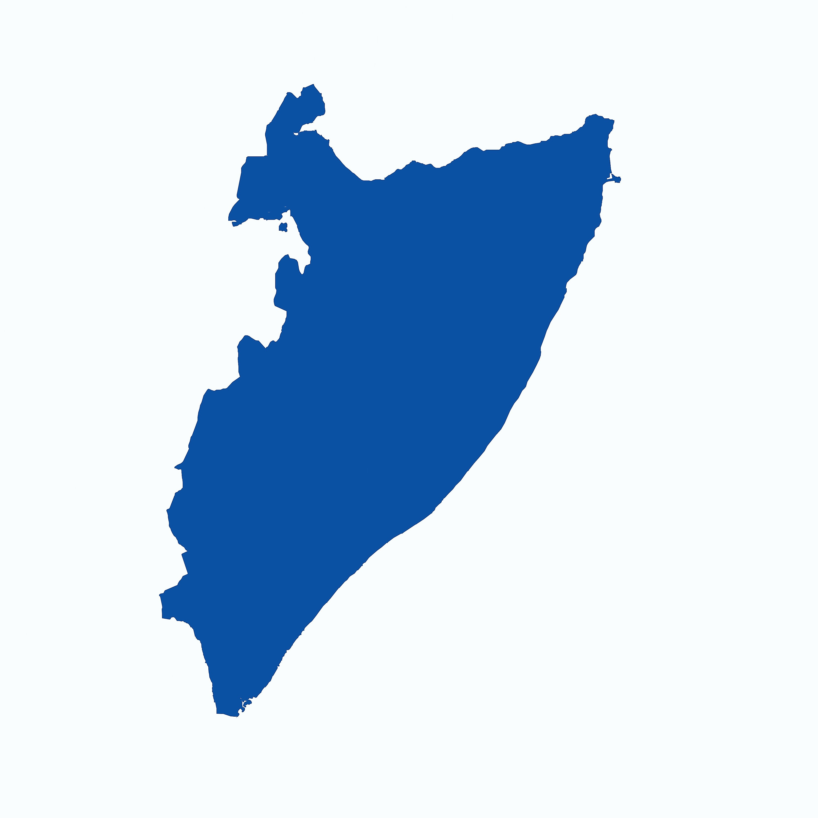 Map of a unified Somalia.